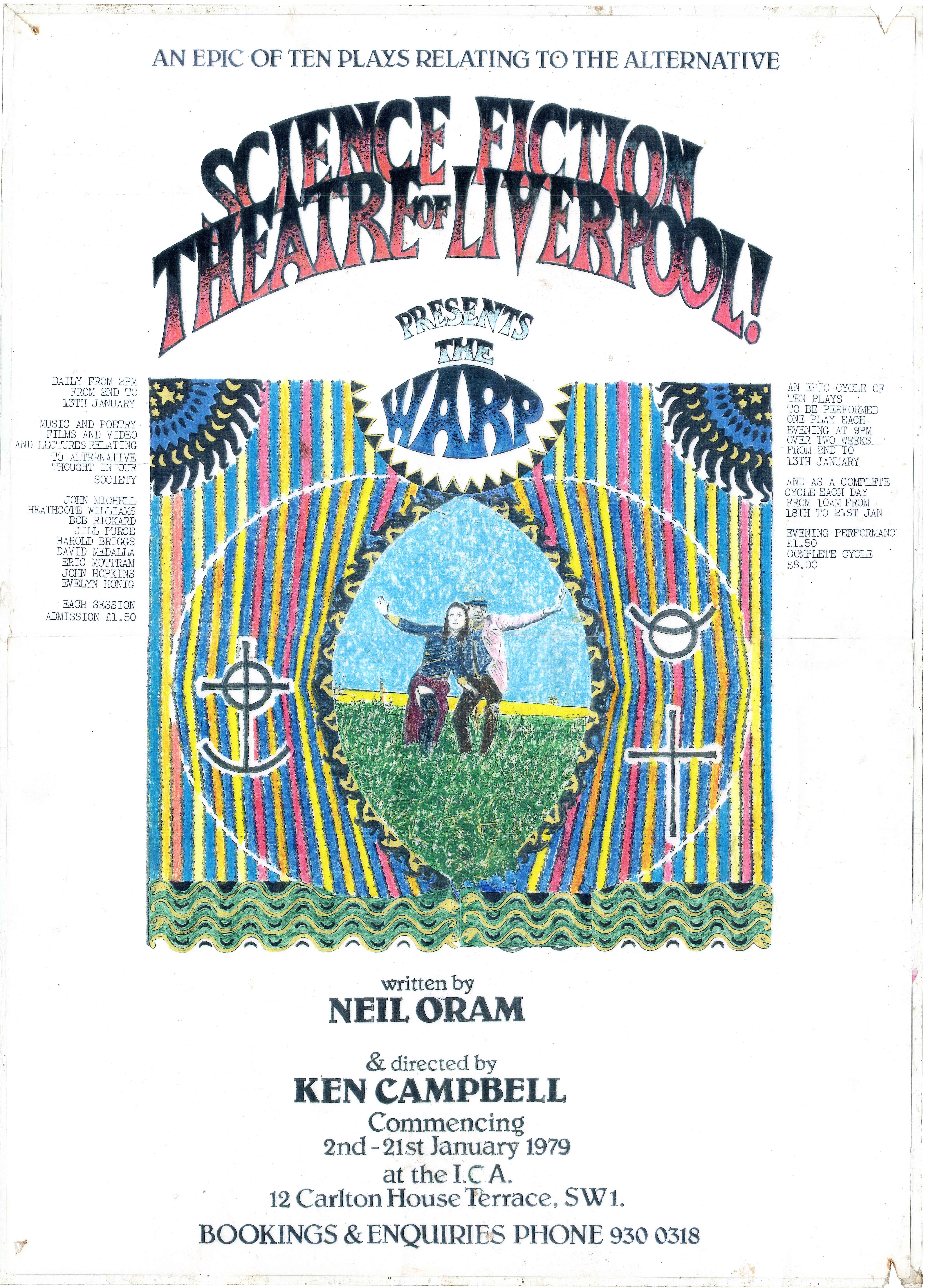 Poster for the Science Fiction Theatre of Liverpool production of Neil Oram's play 'The Warp" at the ICA, London, January 1979